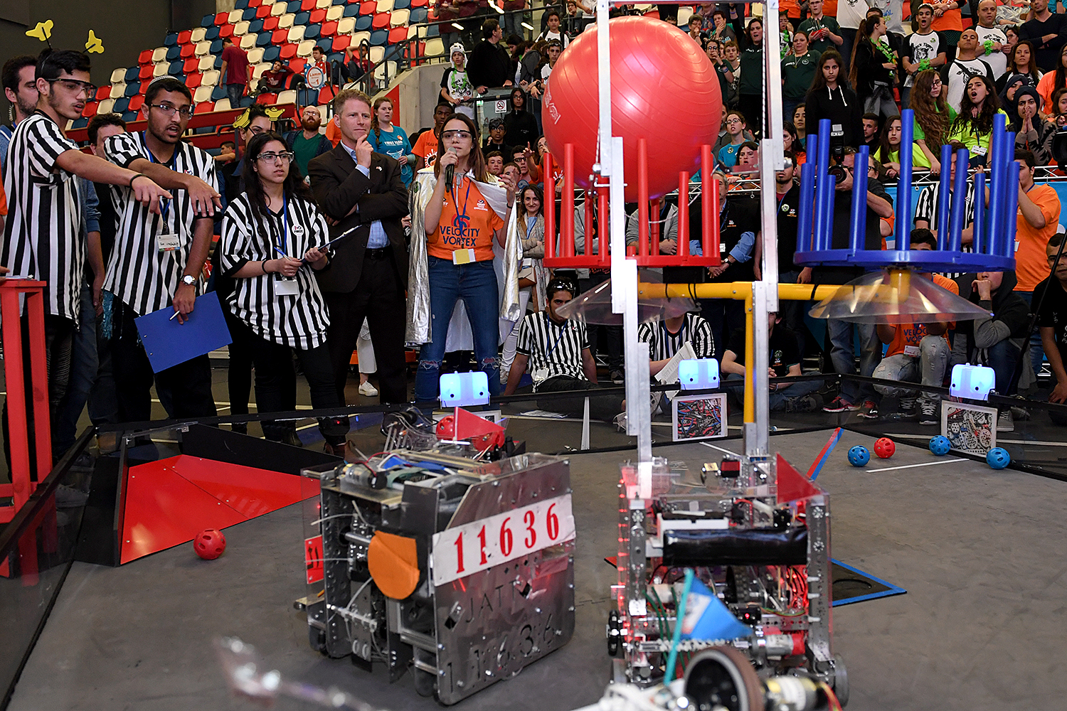 The U.S. Embassy was pleased to support students participating in FIRST Lego League, FIRST Lego League Junior, and FIRST Tech Challenge, March 1-2, 2017, in Tel Aviv. FIRST (For Inspiration and Recognition of Science and Technology) Israel is a non-profit organization dedicated to inspiring youth to pursue learning and careers in engineering, science, and technology. FIRST Israel (est. in 2005) is a program of the Technion, and is inspired by FIRST established in the U.S. by inventor Dean Kamen in 1998. Young people ages 6-18 participate in teams, together with community mentors, in sport-like robotics competitions. FIRST not only creates excitement about science and technology, but also instills life values and skills such as community involvement, self-confidence, and teamwork. In the 2016/17 season, over 11,000 students are being inspired through FIRST Israel. U.S. Embassy Cultural Attache Jon Berger praised FIRST Israel on their outstanding efforts to promote STEAM in Israel, congratulated the students for their impressive achievements and dedication to science and technology. On behalf of the U.S. Embassy and the American people, Mr. Berger presented the most prestigious FIRST INSPIRE Award to the winners of FIRST Tech Challenge (FTC) - Black Tigers from Kfar Yona. In April, the winners will travel to the U.S. to participate in FIRST Tech Challenge Championship in Houston, Texas. The event attracted an audience of more than 3,000 participants from all over Israel, including student teams - boys and girls from Israeli Jewish secular and religious, Arab, Druze and Bedouin communities as well as their teachers, mentors, volunteers, parents and guests.